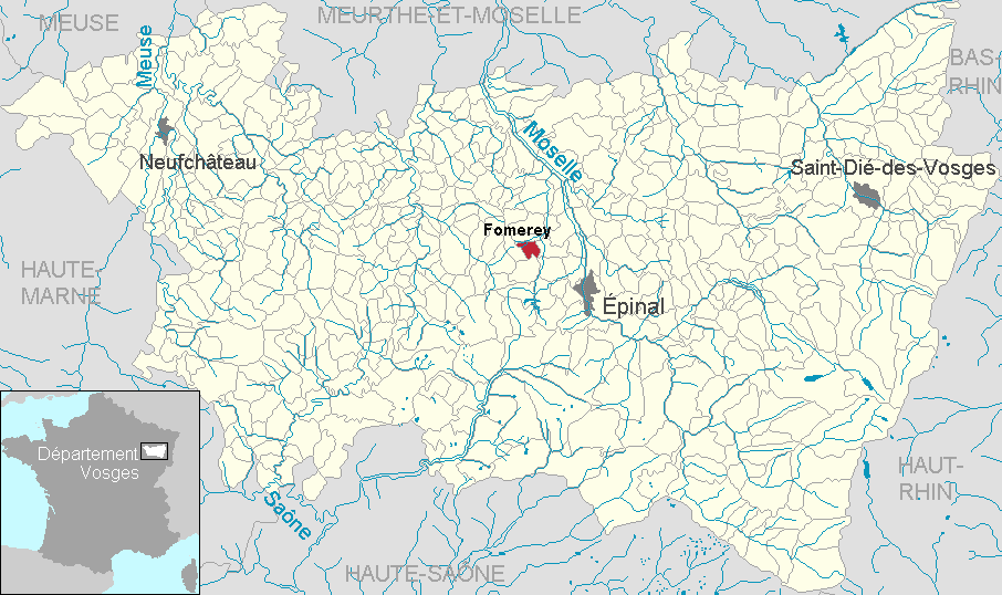 Fomerey in the department of Vosges, Lorraine, France